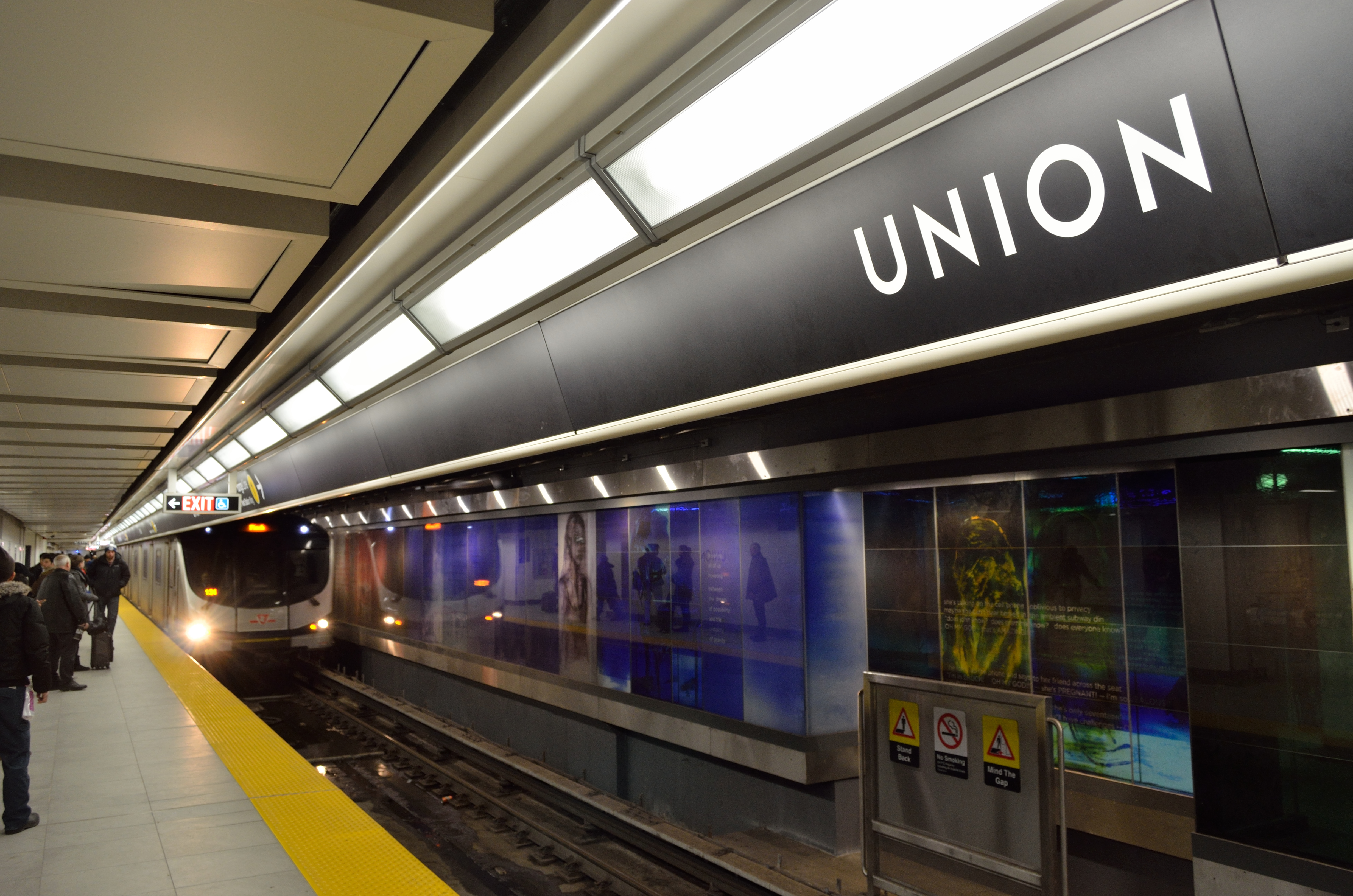 Union TTC station after the 2015 station expansion